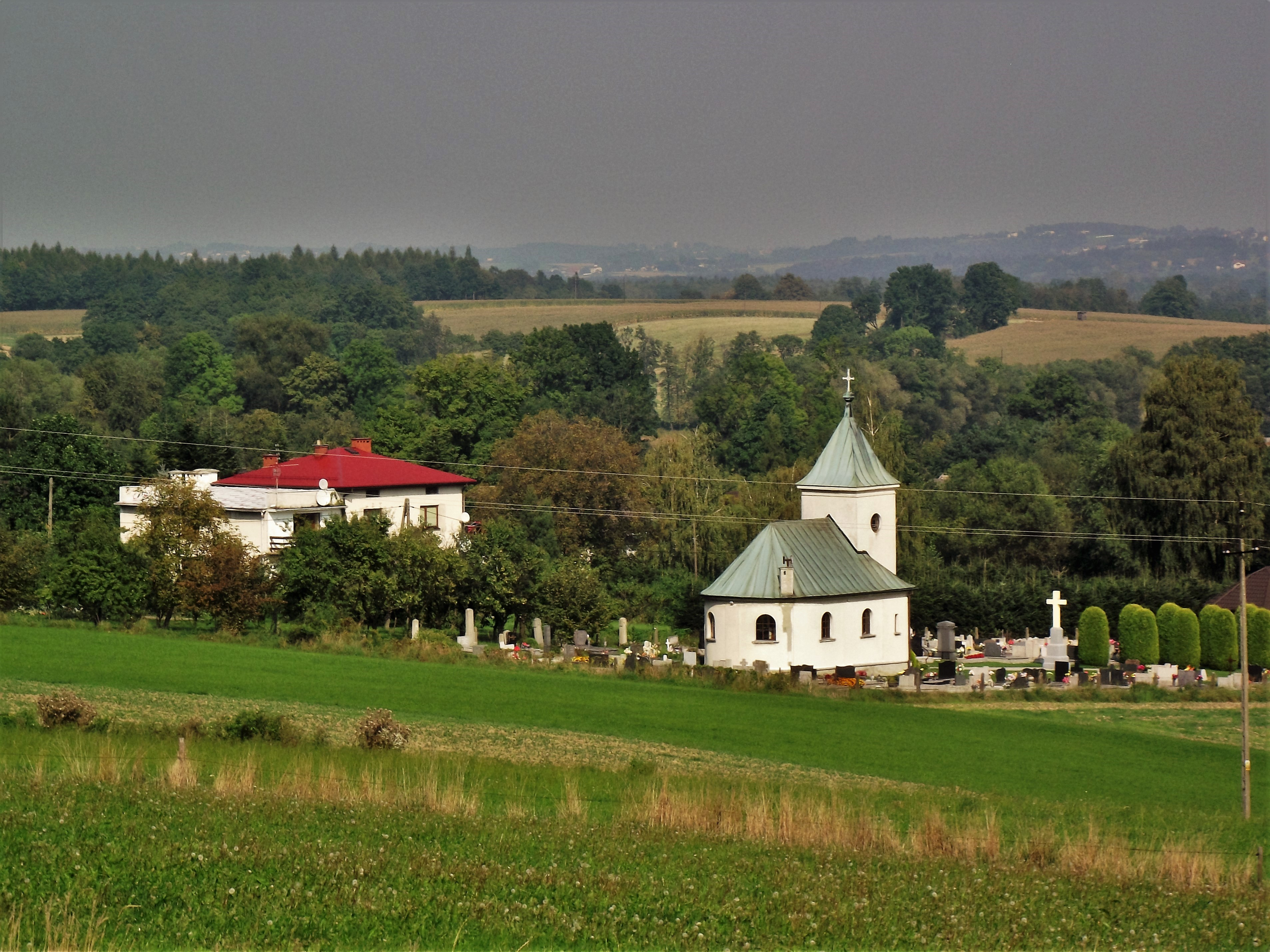 A view of the Lutheran church in Godziszów, Poland, Cieszyn Silesia.